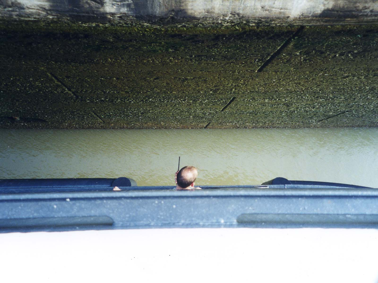 Ship's officer keeping an eye on clearance in the Panama Canal. Large ships have only a few feet of clearance on each side of the lock, and great care is needed to avoid accidental scraping.